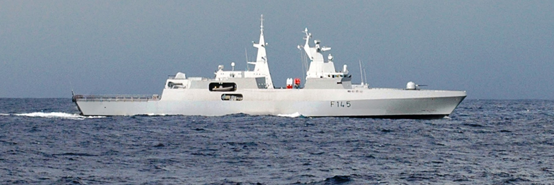 South African Navy frigate SAS Amatola (F 145) cruises alongside guided-missile destroyer USS Arleigh Burke (DDG 51) during a series of maneuvering drills in the Indian Ocean July 15, 2009.